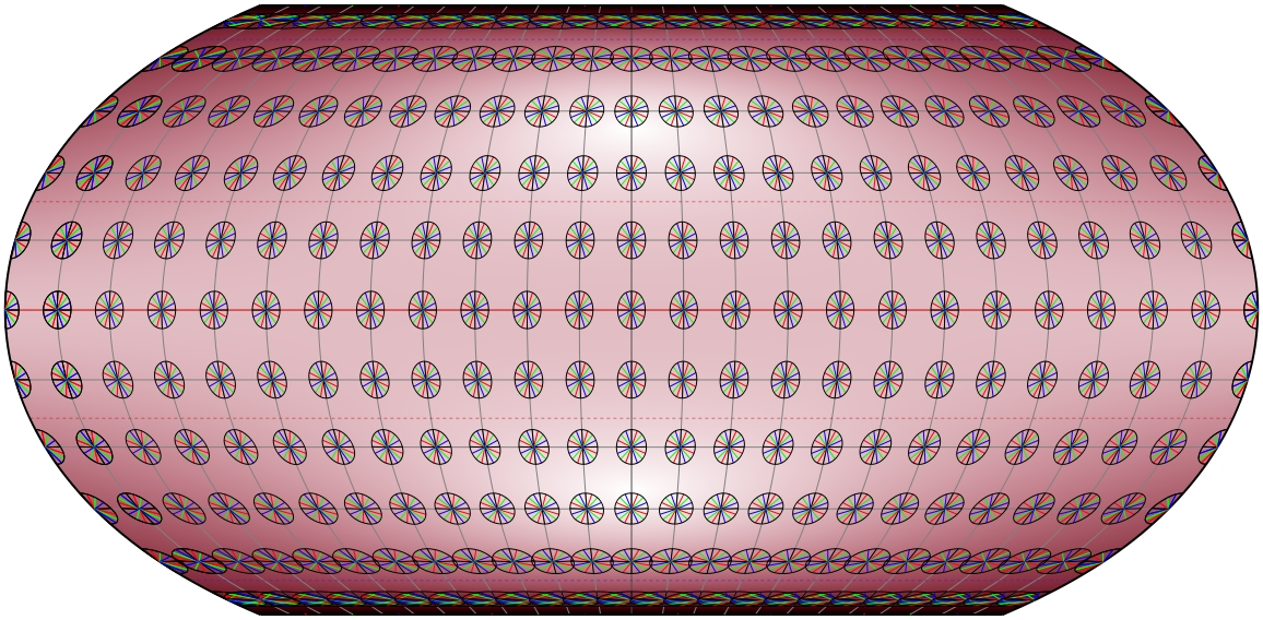 Equal Earth projection distortion. Deeper color means more distortion. Tissot indicatrix at 15° intervals.